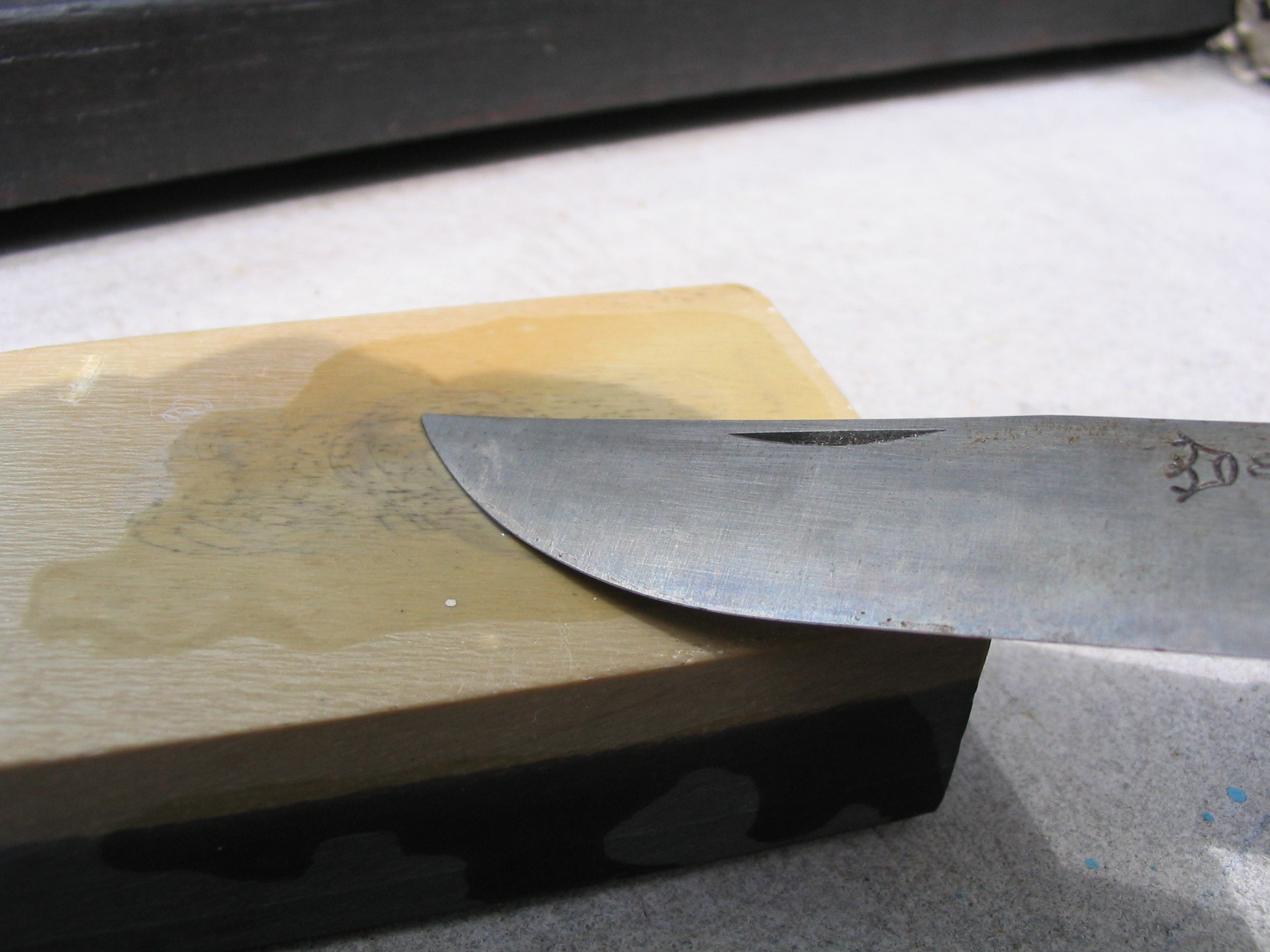 Opinel + Coticule : sharpening the knife on a coticule from Vielsalm in Belgium